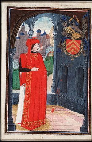 Statuts, Ordonnances et Armorial de l'Ordre de la Toison d'Or (Statutes, Ordonnances and armorial of the Order of the Golden Fleece) Place of origin, date: Southern Netherlands; 1473. Added sections: Southern Netherlands; 1478 or shortly after and 1491 or shortly after Material: Vellum, ff. 86, 249x187 (167x106) mm, 23 lines, littera cursiva (lettre bourguignonne). French. Binding: 18th-century brown leather Decoration: 1 full-page miniature (170x115 mm) with border decoration; 92 miniatures (185/155x120/100 mm); 1 historiated initial (80x90 mm) with border decoration; decorated initials with border decoration (ff., Added section: miniatures ; 4 drawings for miniatures (not finished) Provenance: Presented in 1473 by Gilles Gobet, King of Arms of the Order of the Golden Fleece, to Charles the Bold, Duke of Burgundy and the other Knights during the Chapter of the Order held at Valenciennes; Treasure of the Golden Fleece, Brussls; taken away by the Treasurer C.-F. Humyn (d. 1735) or his daughter C.Ch. de Corte; by legacy to her daughter M.-L. de Corte, wife of Ph.-E. de Poederlé; purchased in 1781 at the Poederlé sale by G.-J- Gérard of Brussels; acquired in 1832 as part of the Gérard collection (no. A 27)